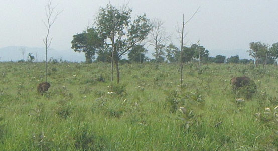 Udawalawe National Park, Southern Province, Sri Lanka